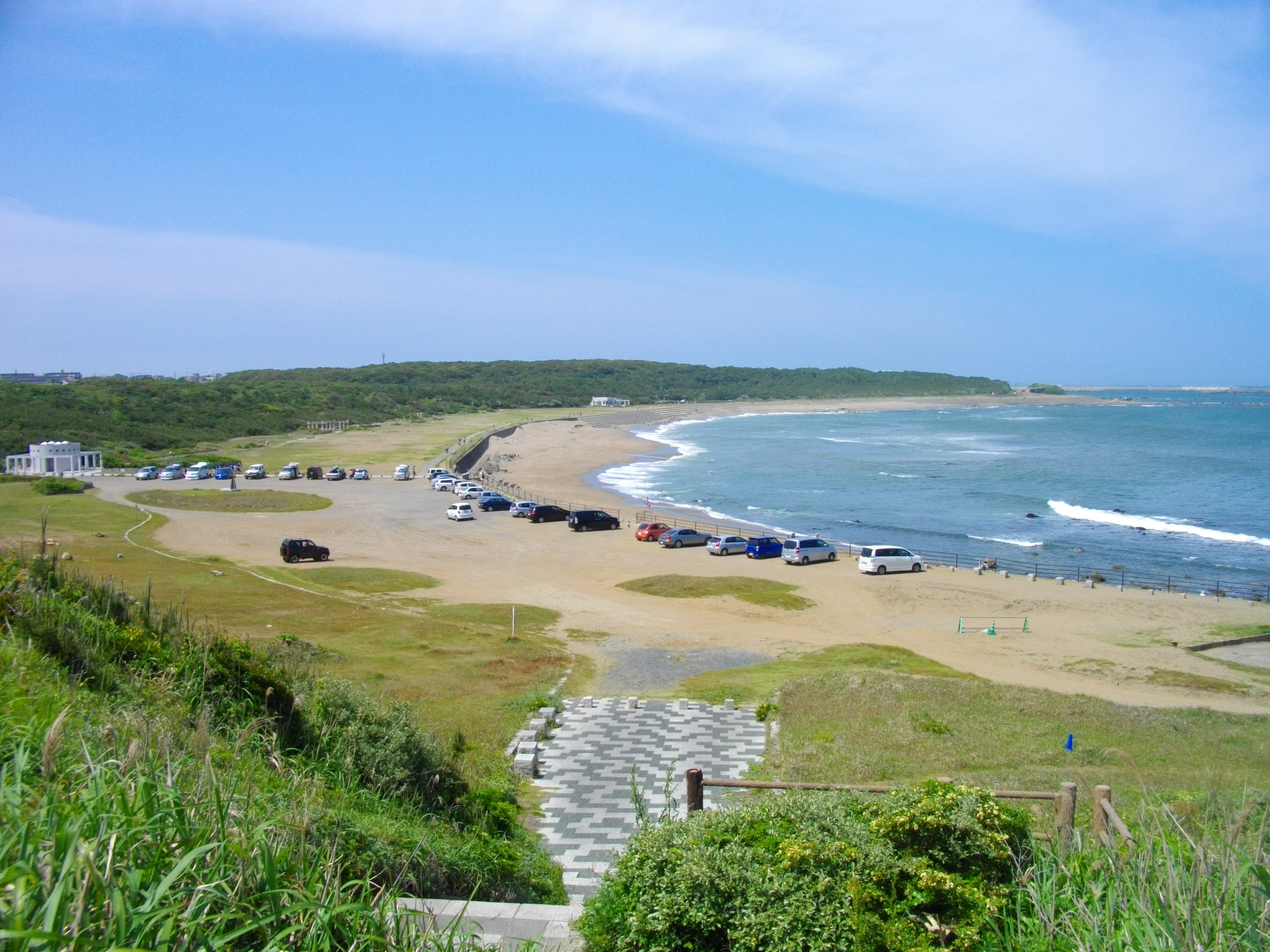 Kimigahama